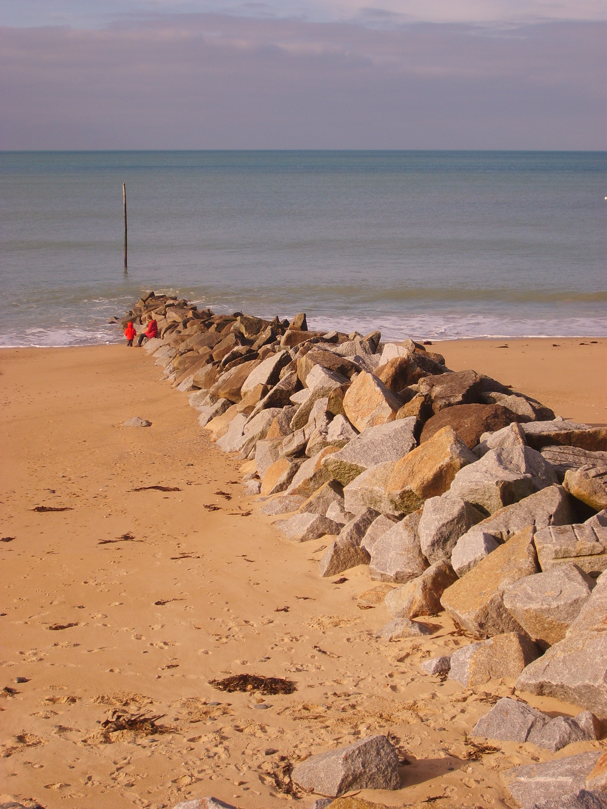 Groyne in Coutainville - Normandy